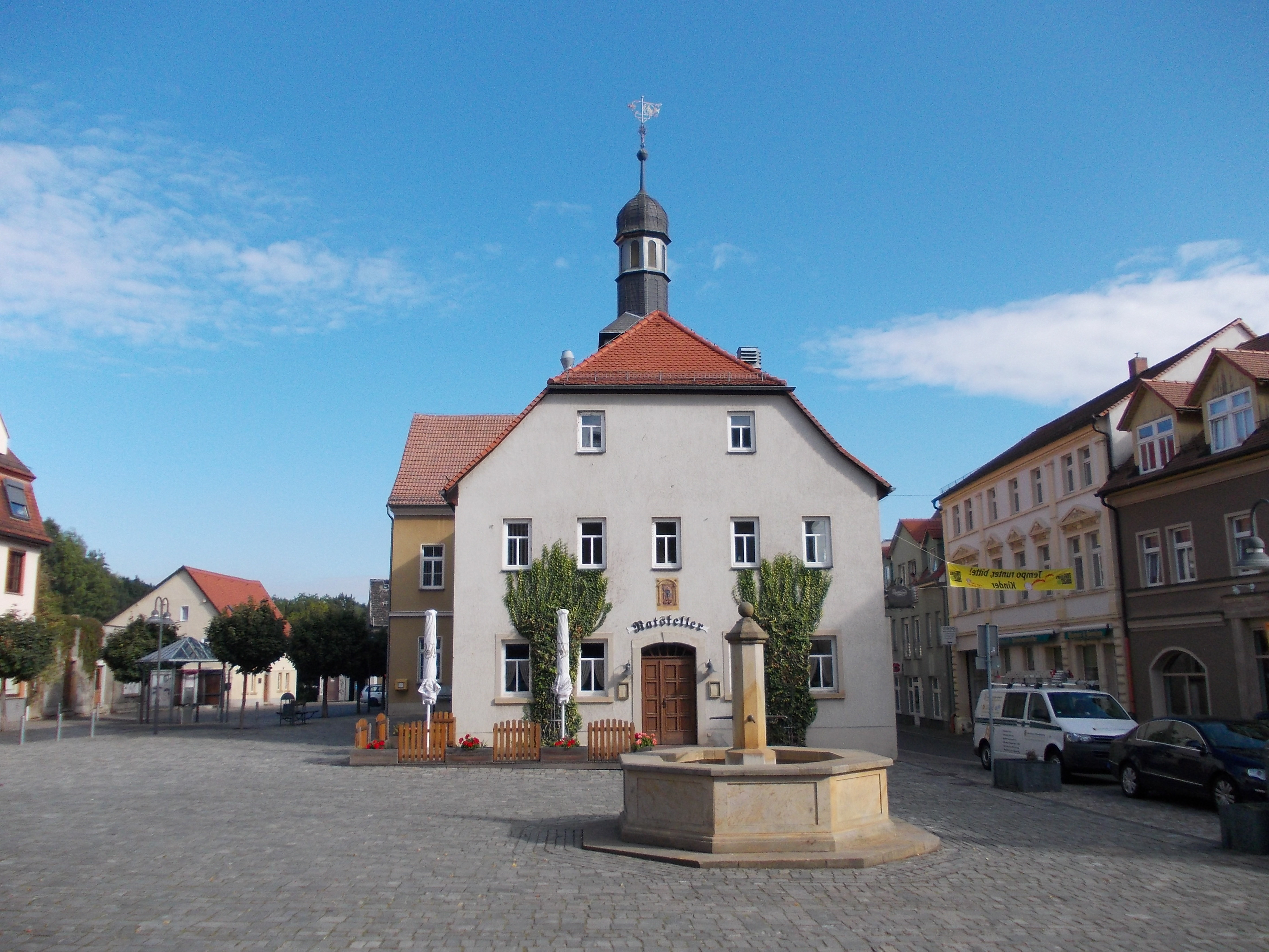 Town hall and fountain at the market square of Teuchern (district of Burgenlandkreis, Saxony-Anhalt)